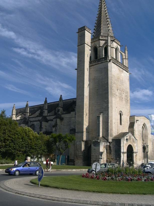 La Collégiale Royale Sainte Marthe (St Martha's Collegiate church) — a sort of abbey. Destroyed during World War II by Anglo-American bombardments, and rebuilt after. Located on the Boulevard du Roi-René in Tarascon.